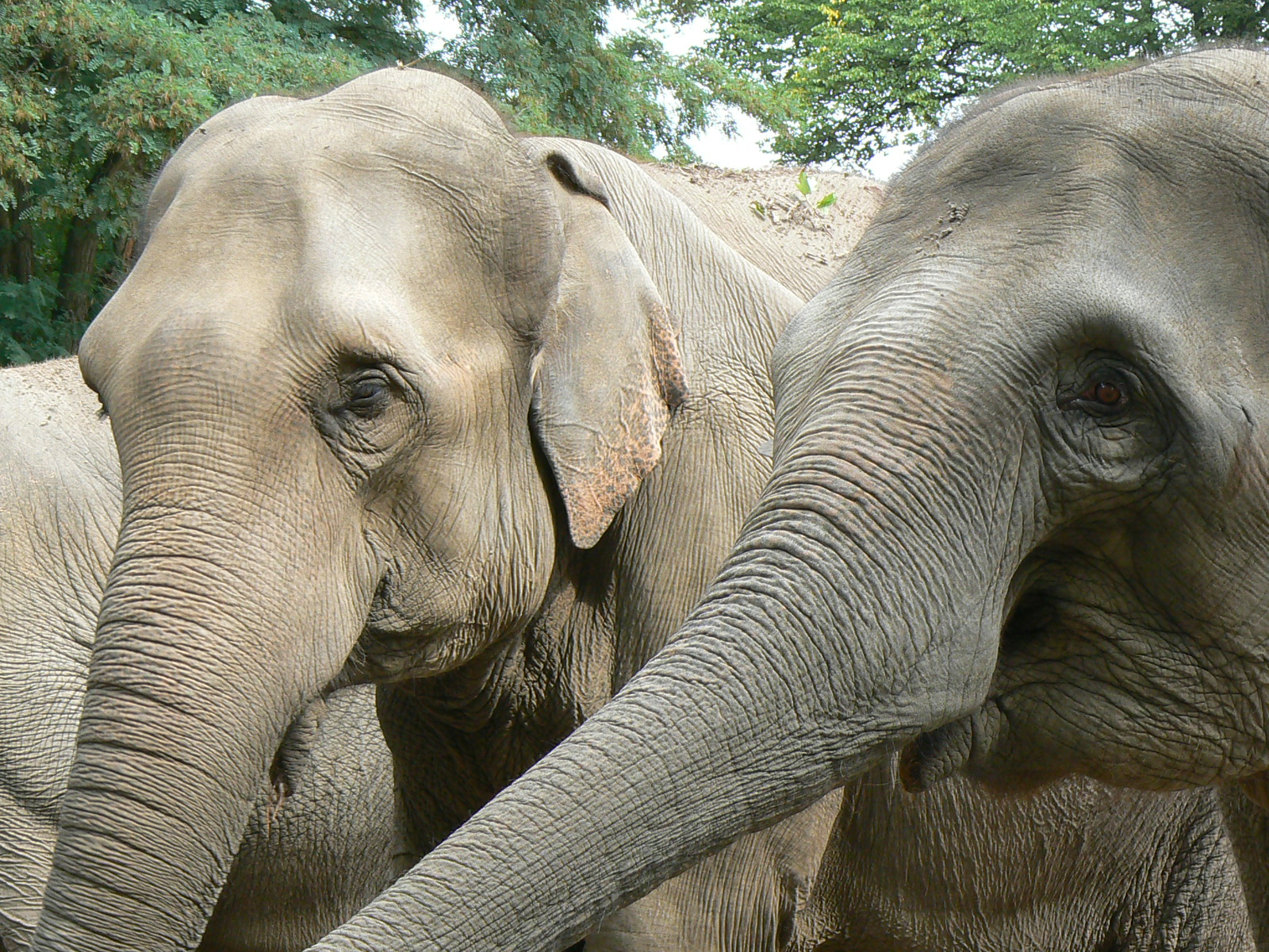 asian elephants on the zoo from hamburg "Elephas maximus"